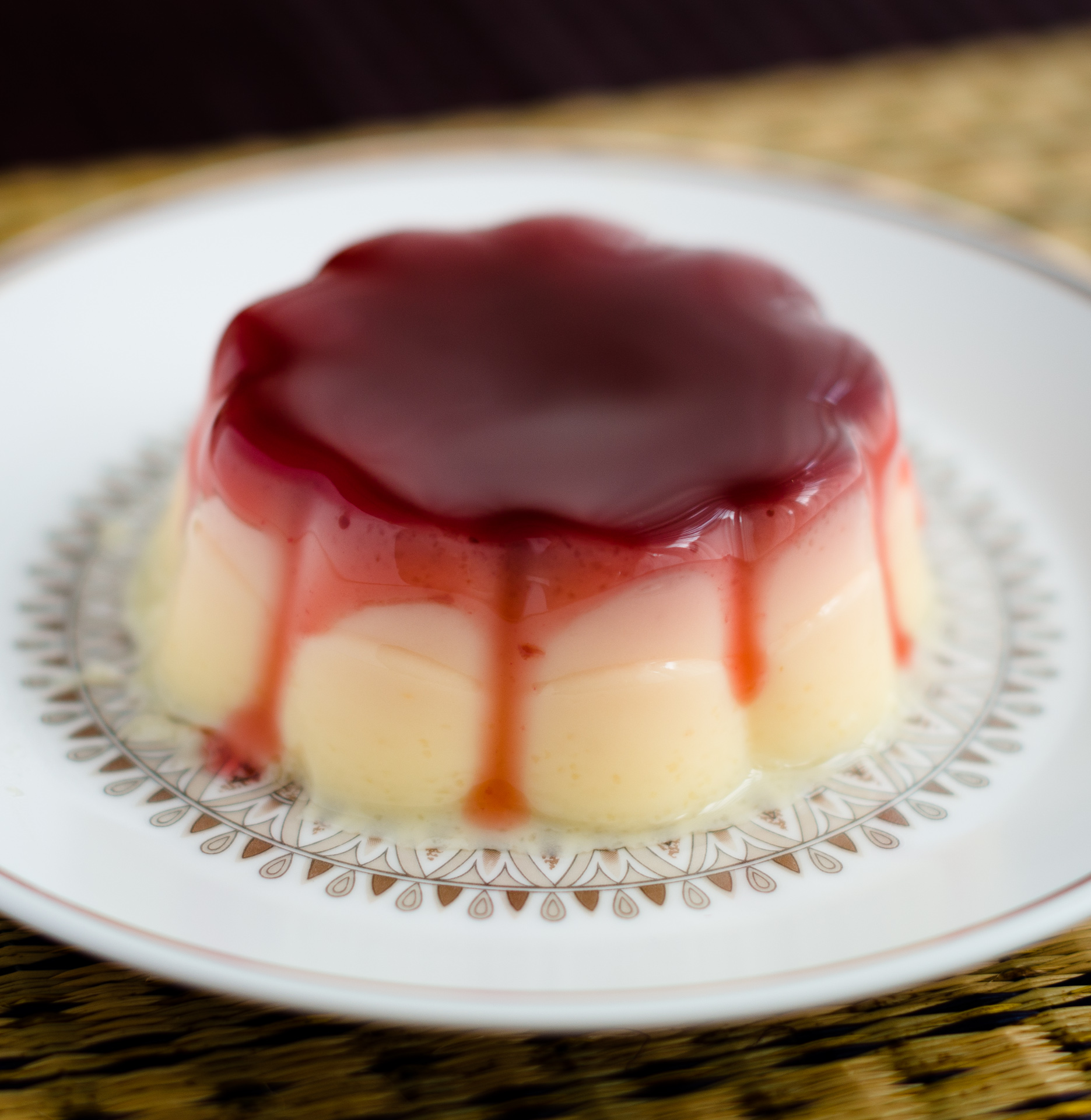 Griesmeelpudding met rode bessensaus is a Dutch dessert of wheat semolina cooked with milk and vanilla, and served with a tangy redcurrant sauce. This particular version is a commercial product made by the Netherlands-based dairy company Koninklijke FrieslandCampina N.V. under its brandname "Mona".